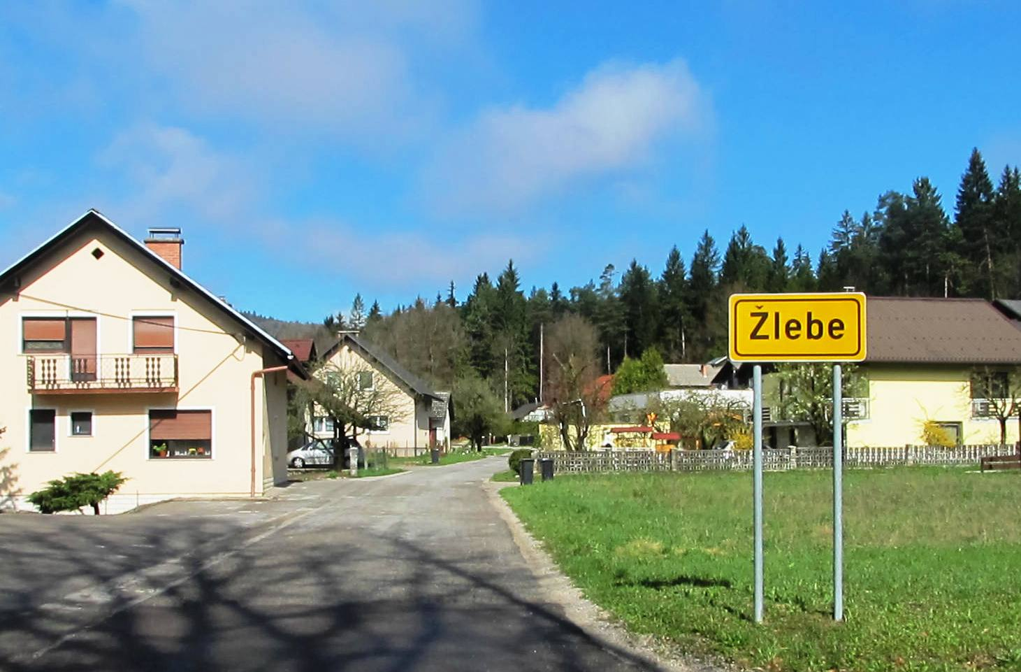 Žlebe, Municipality of Medvode, Slovenia